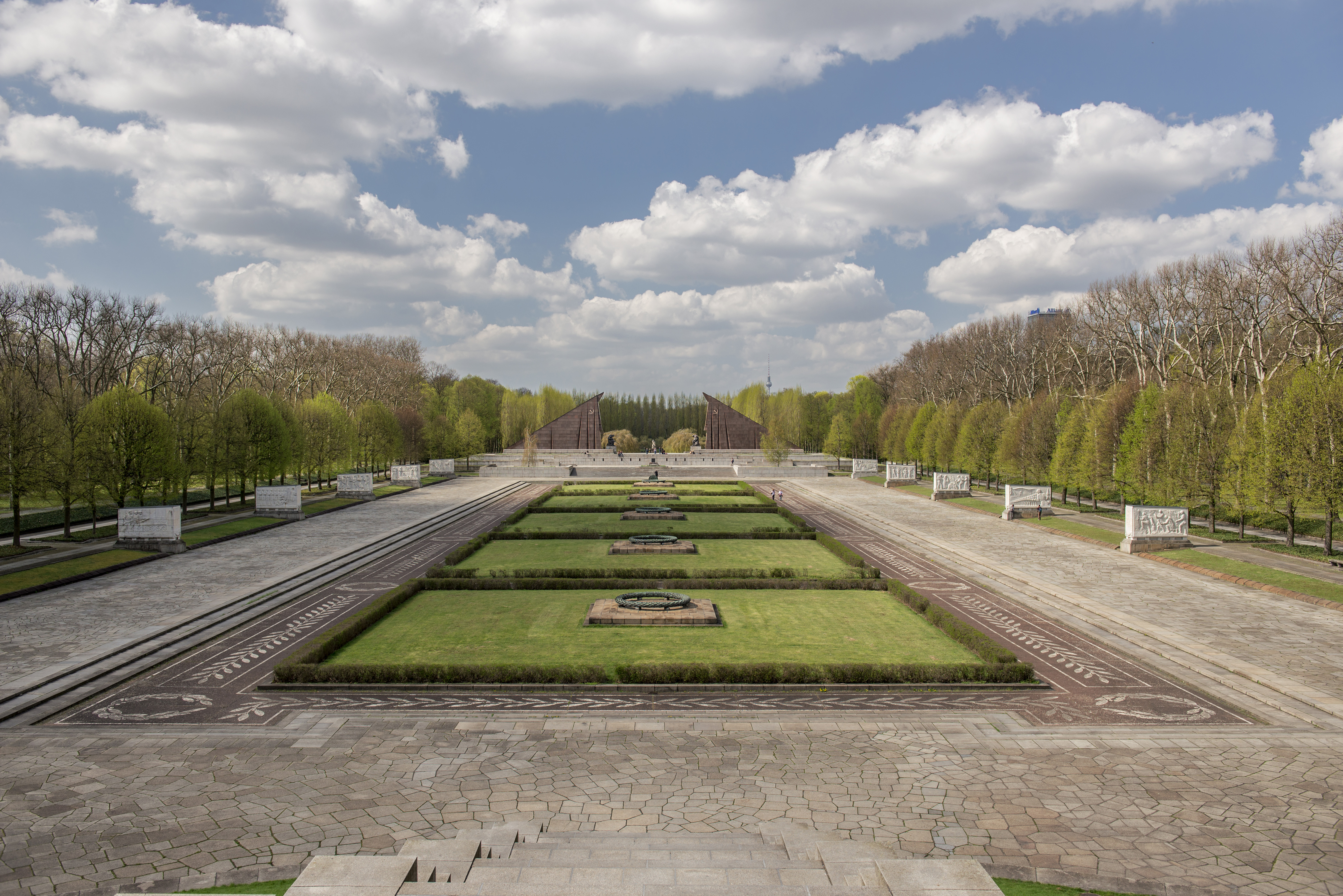 Soviet War Memorial in Treptower Park